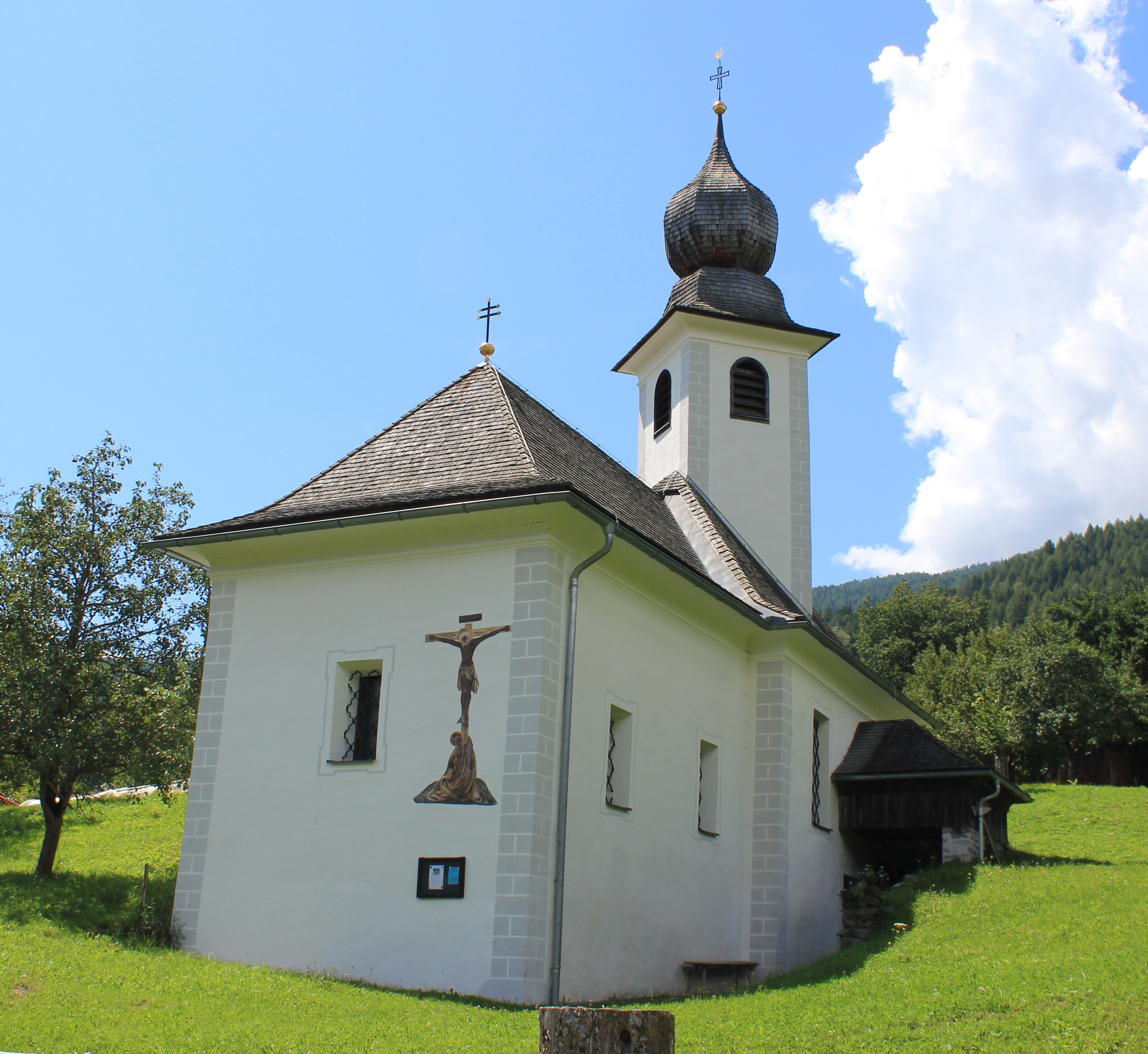 Subsidiary church Dornbach in the community Malta